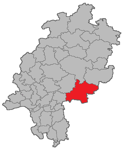 Map of the district court Gelenhausen